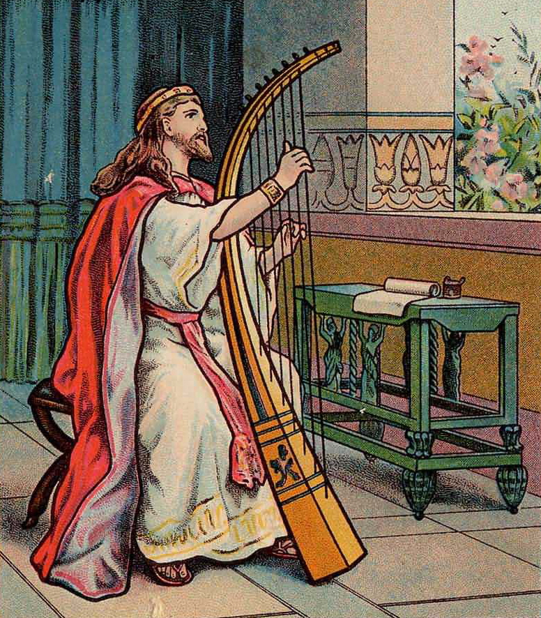 David's Joy Over Forgiveness; as in Psalm 32; illustration from a Bible card published by the Providence Lithograph Company